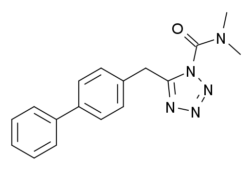 Structure of LY-2183240